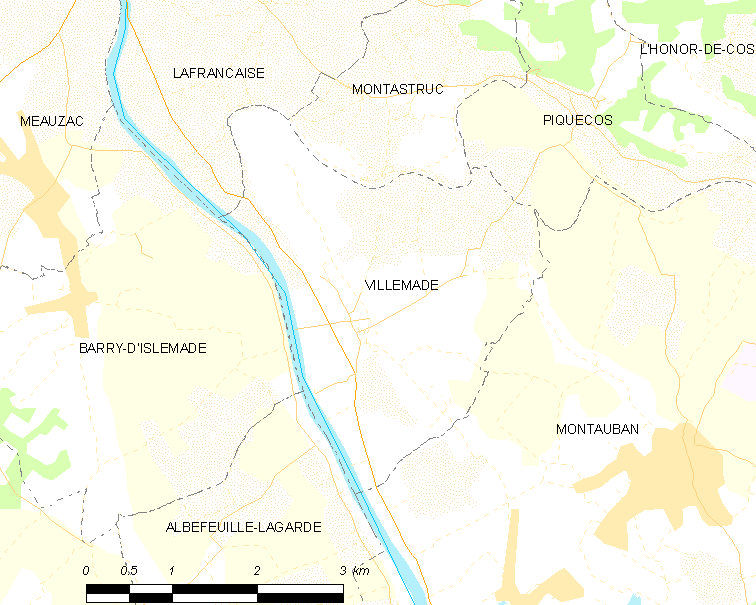 Map of French municipality Villemade